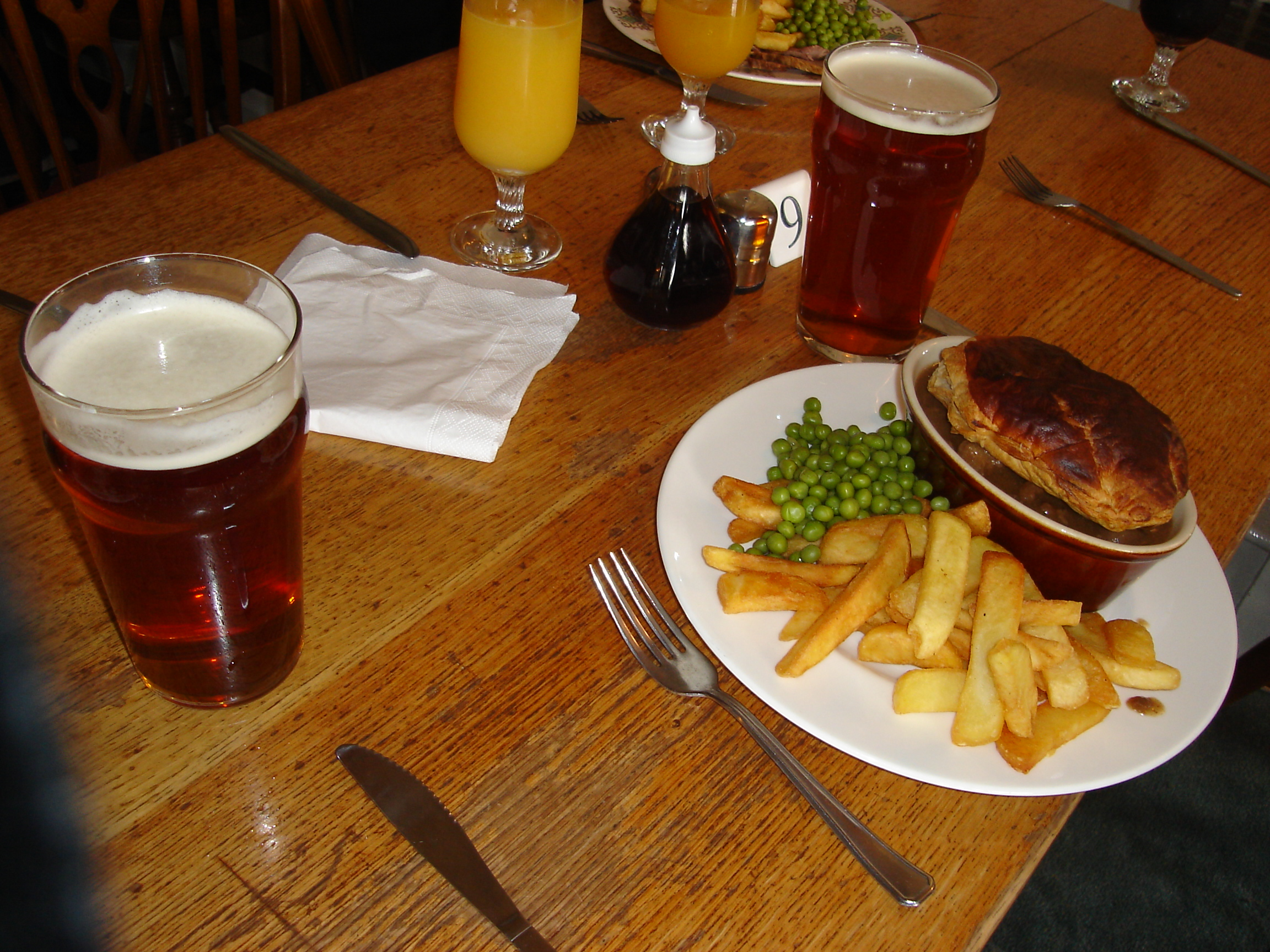 Picture of a pie and pint taken for enwiki-p's Pub grub.